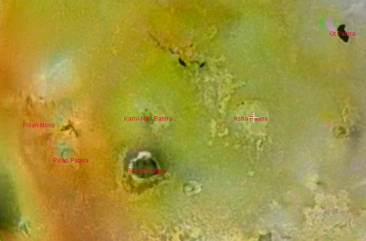 A screenshot of Jupiter's moon Io, in NASA World Wind, centered on Asha Patera.